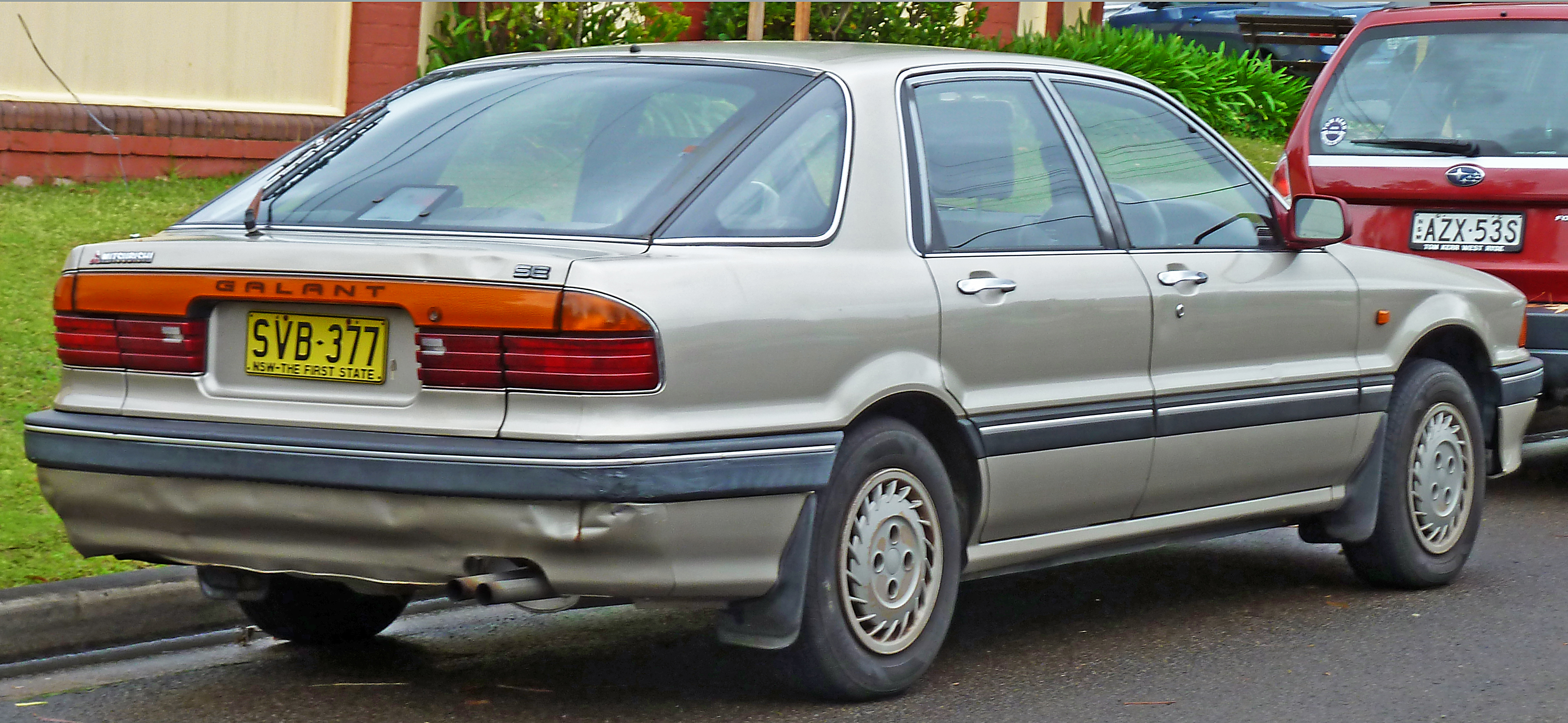 1989 Mitsubishi Galant (HG) SE hatchback. Photographed in Gordon, New South Wales , Australia.